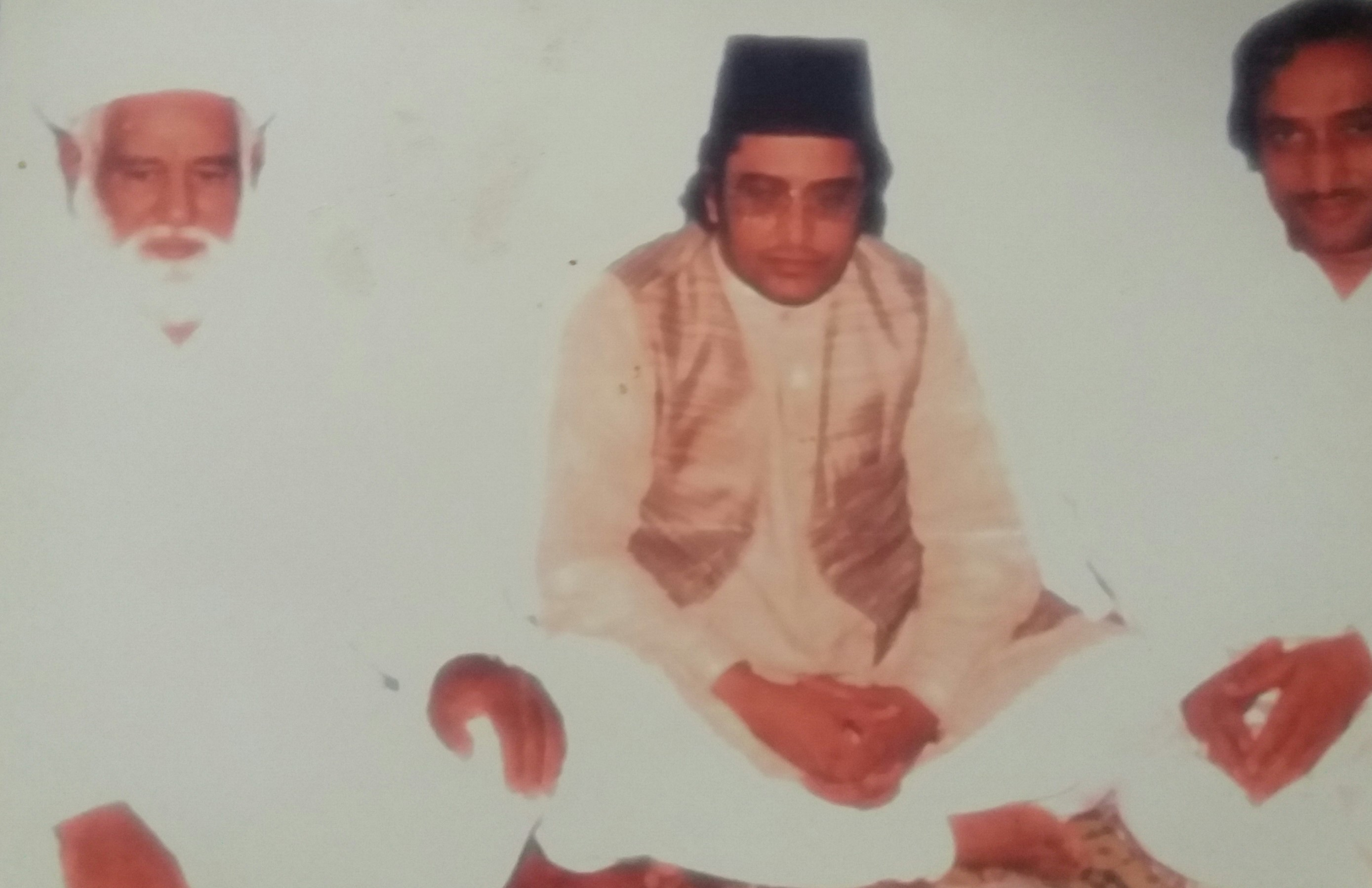 علامہ حسین بخش جاڑا ، علامہ عرفان حیدر عابدی، شہید محسن نقوی